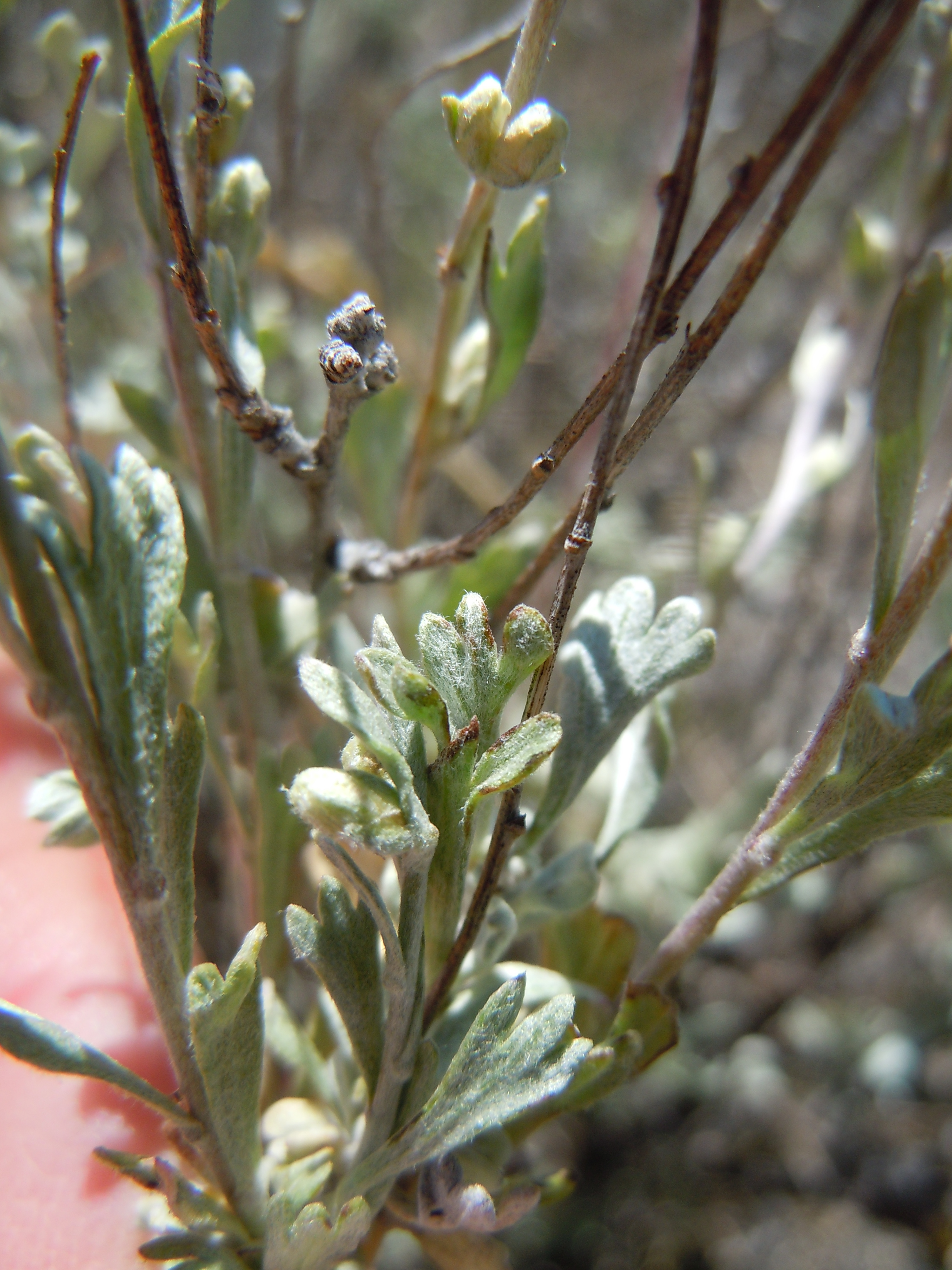 Artemisia arbuscula is apparently uncommon in the Centennial Valley area where Artemisia tripartita (threetip sagebrush) and A. tridentata subsp. vaseyana (mountain big sagebrush) predominate. The tridentate leaves along the base of each inflorescence branch are diagnostic of A. arbuscula.